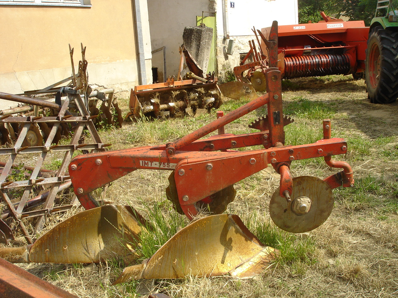 Plough